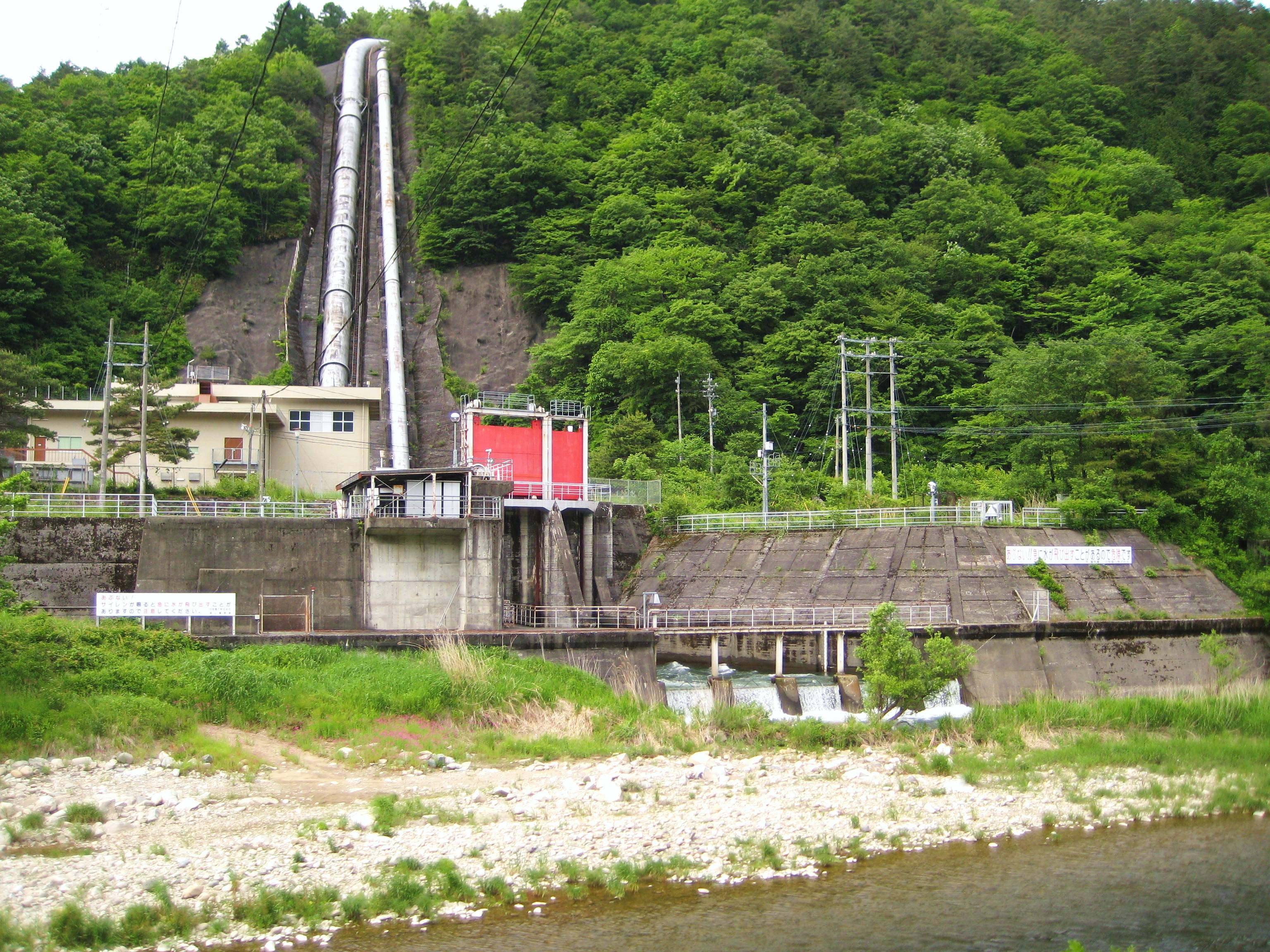 Kuguno power station.